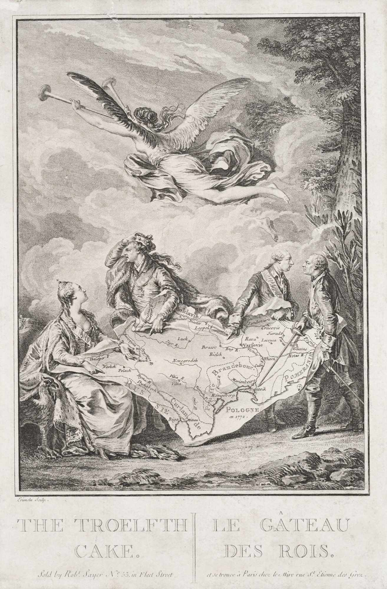 The Troelfth Cake. Allegory of the 1st partition of Poland. The picture shows the rulers of the three countries that participated in the partition tearing a map of Poland apart. The outer figures demanding their share are Catherine II of Russia and Frederick II of Prussia. The inner figure on the right is the Habsburg Emperor Joseph II. On his left is the beleaguered Polish king, Stanisław August Poniatowski, who is experiencing difficulty keeping his crown on his head. Above the scene the angel of peace trumpets the news that civilized eighteenth-century sovereigns have accomplished their mission while avoiding war. The drawing gained notoriety in contemporary Europe, with bans on its distribution in several European countries.